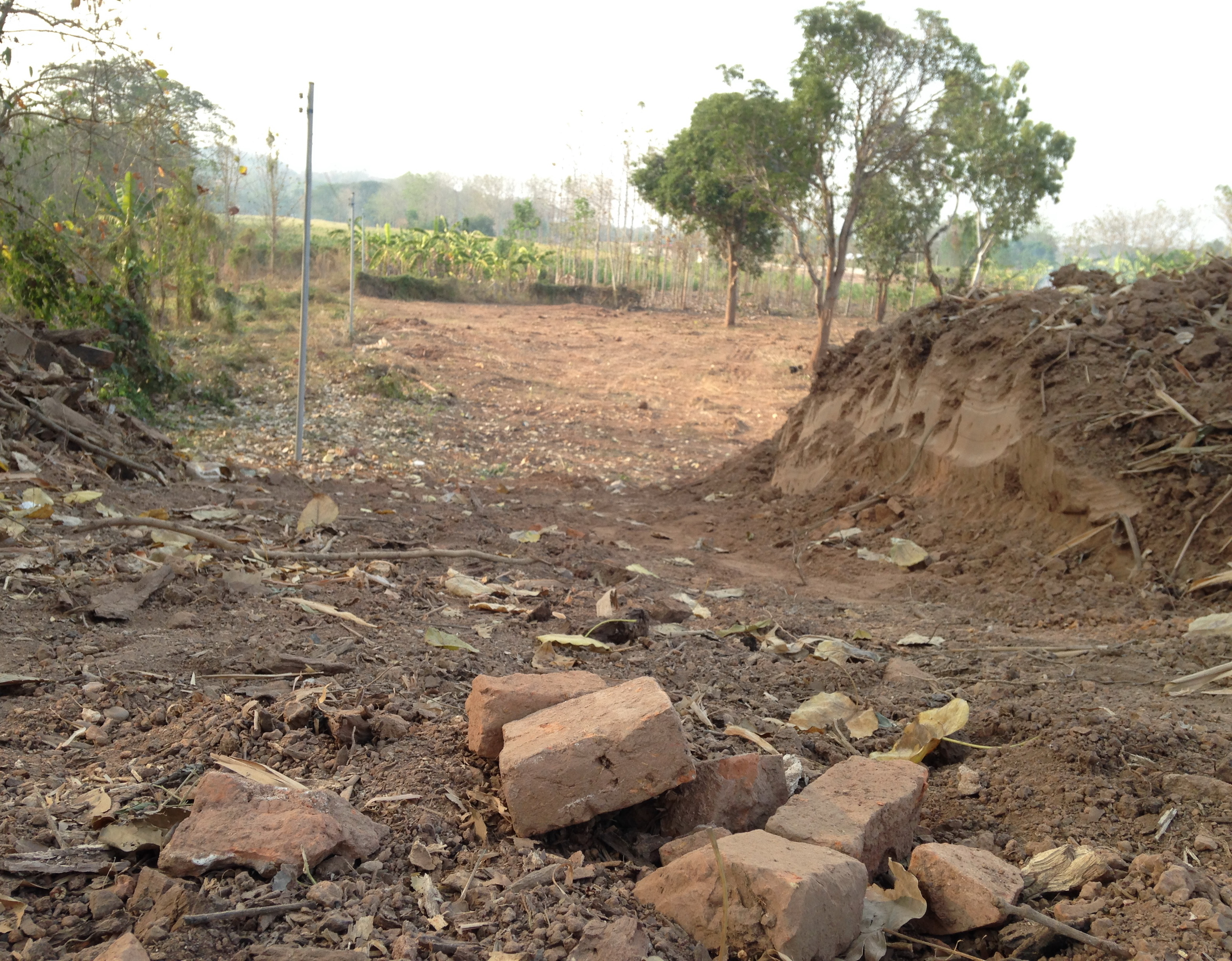 Thonburi ancient brick in historic site of wat khungtaphao